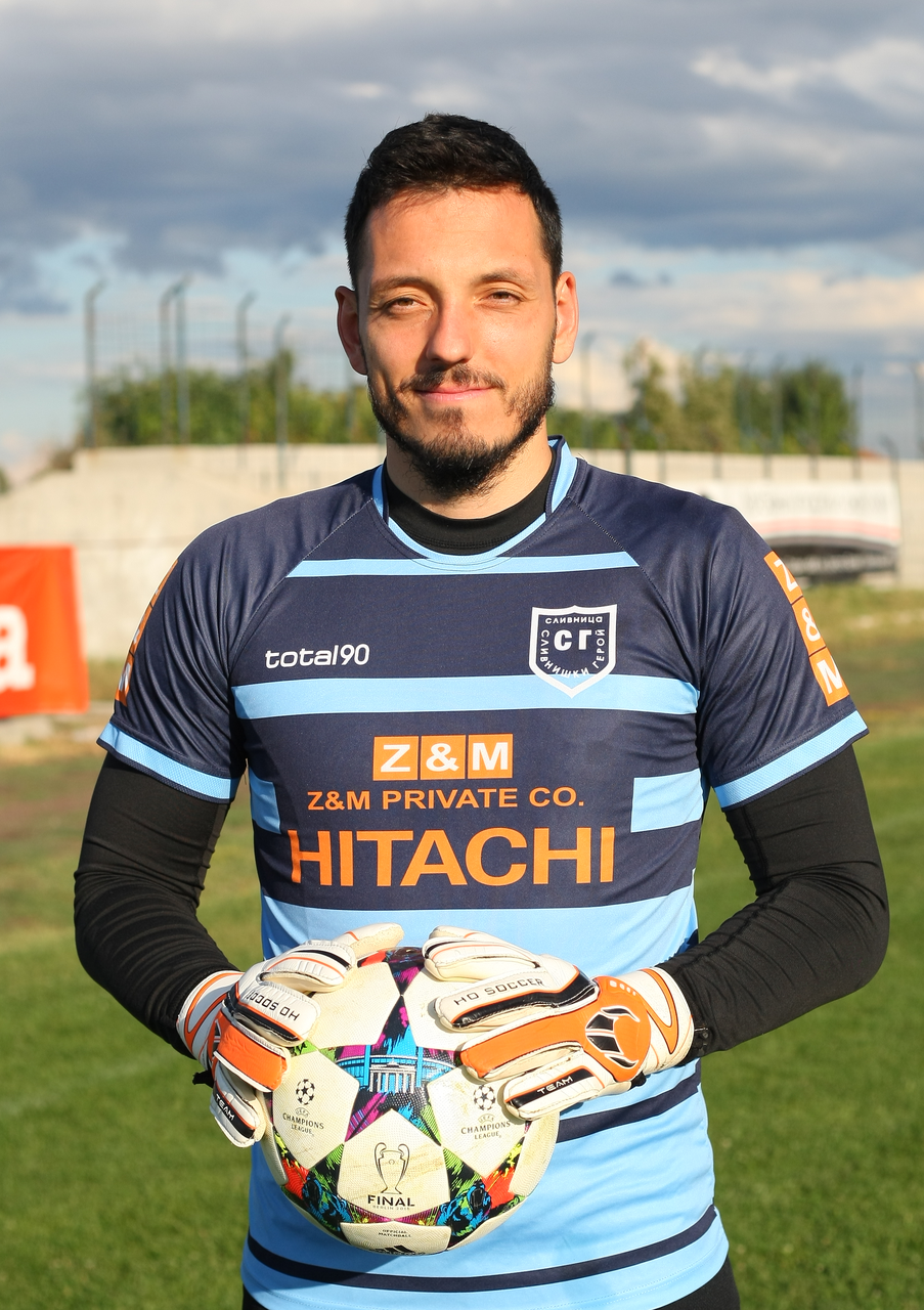 Dimitar Simeonov - Bulgarian footballer goalkeepe, he play for Slivnishki geroi - Slivnitsa